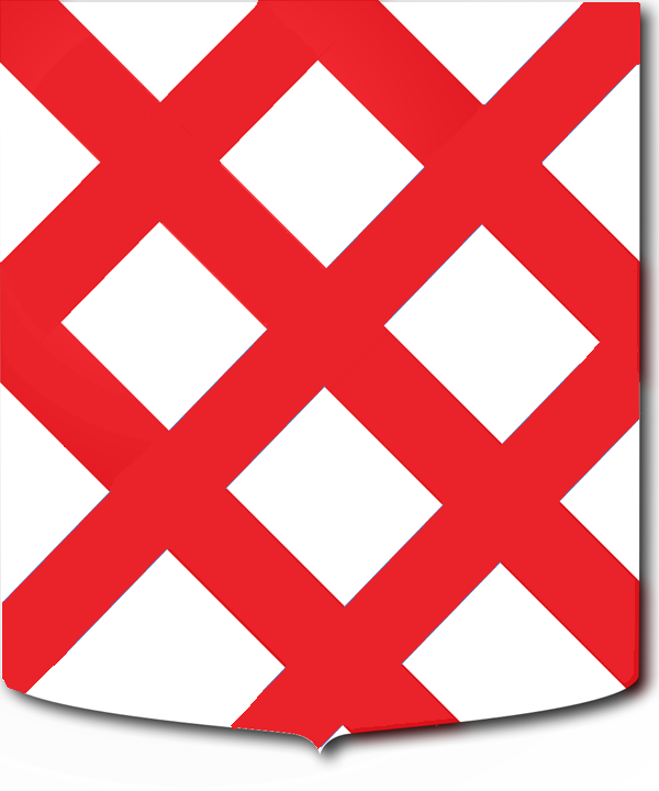 Aoldo shield